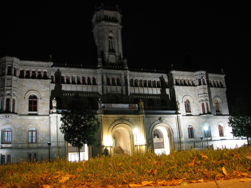 Leibniz University at night Licence concerns photo with 800x600px resolution